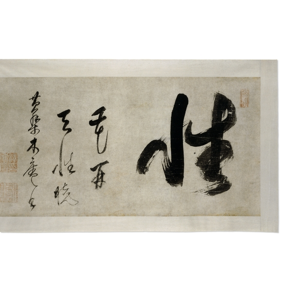 Calligraphy by Muan Xingtao